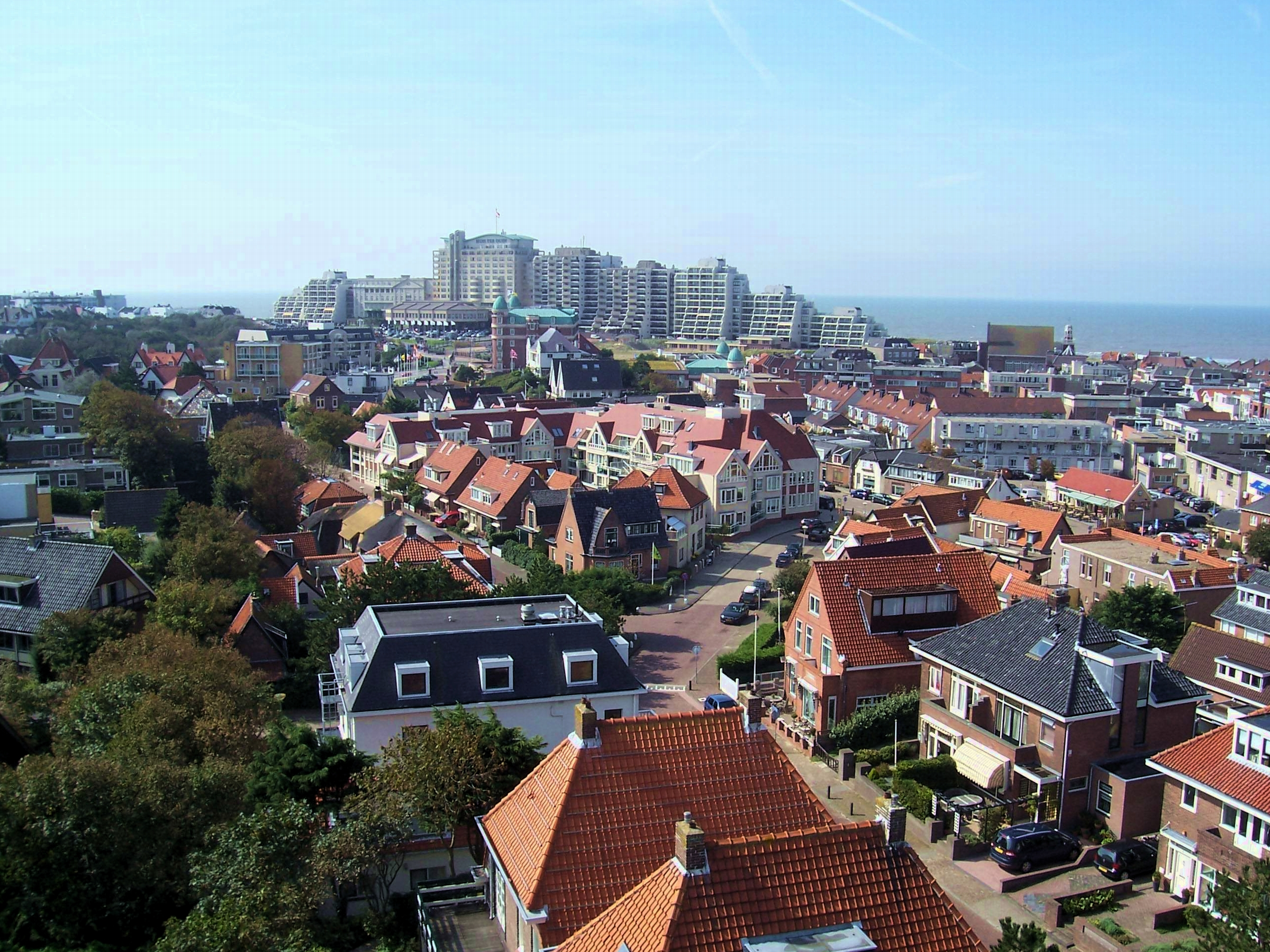 Watertower Noordwijk, 68 ft high and stands on a hill (about 65-70 ft), sight over Noordwijk aan Zee, with hotel Huis ter Duin, the sea, and another part of Noordwijk aan Zee. Noordwijk-Binnen is not on this picture.